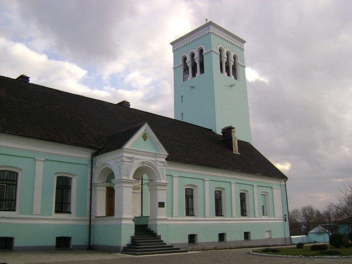 Bishops' palace in Volodymyr-Volynskyi.